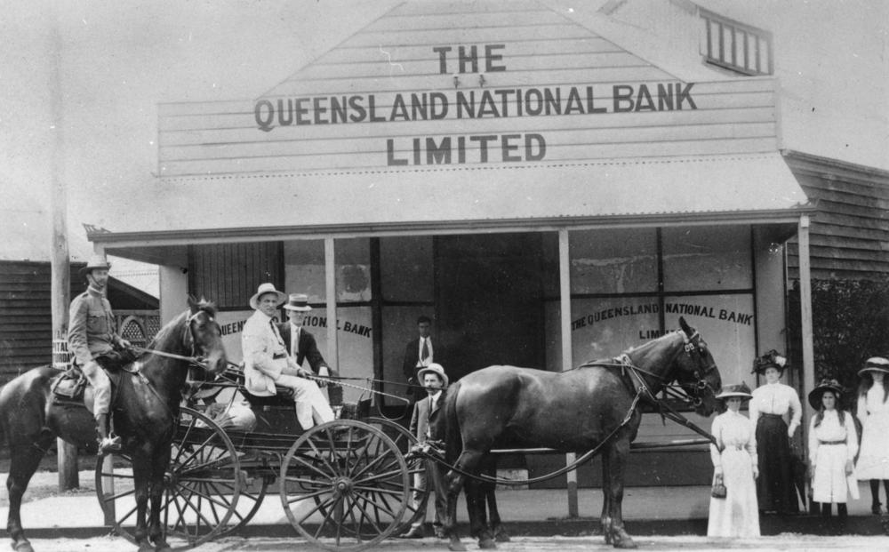 Childers branch of the Queensland National Bank in 1912. Horse and wagon outside the bank. Unidentified people on the wagon. This branch opened in 1900, another bank was opened in 1919 and the bank ceased operation here 18 January 1943. (Description supplied with photograph.).